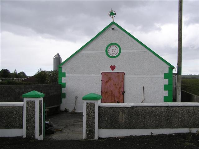 Rosnashane AOH Hall Built in 1915